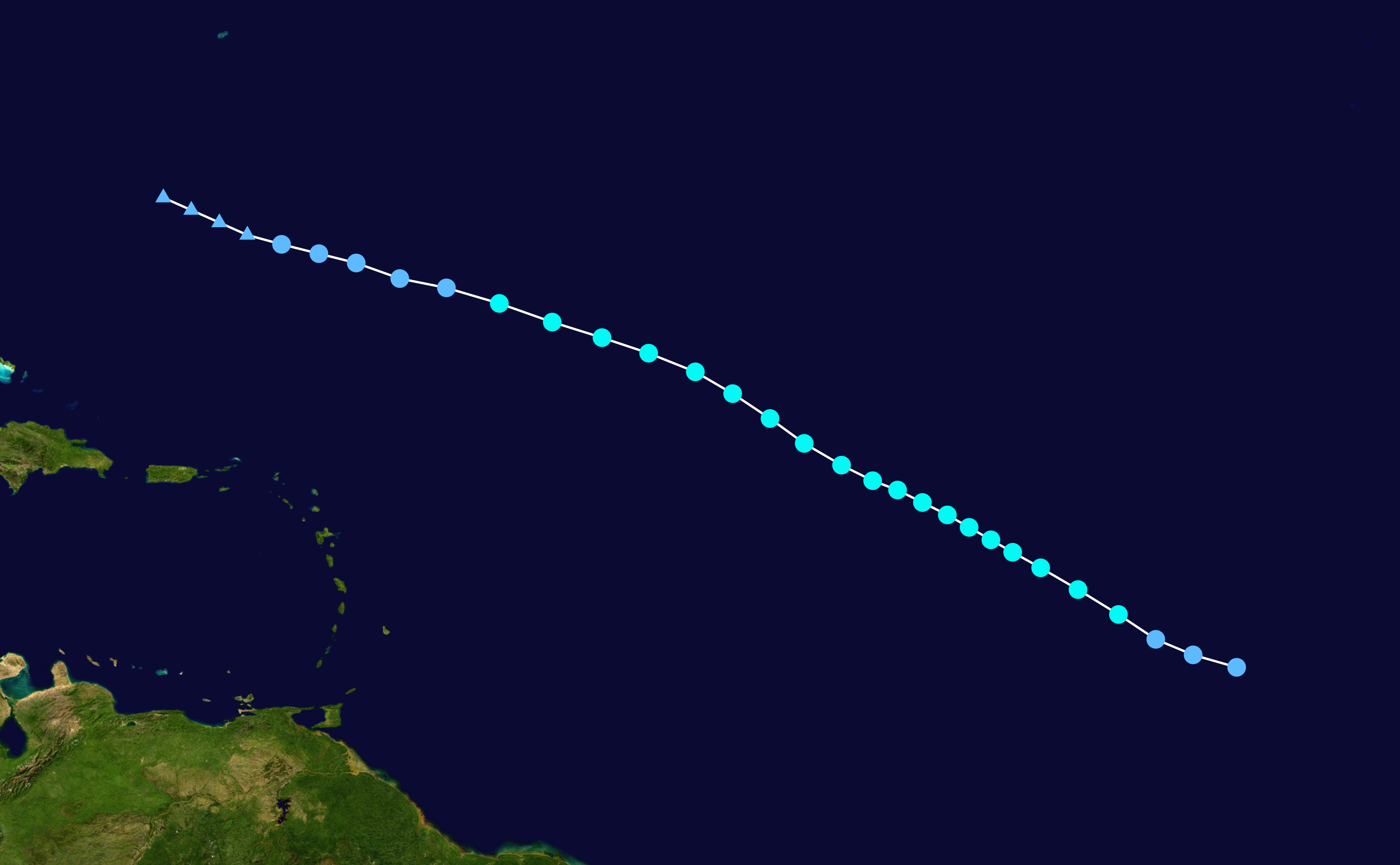 Track map of Tropical Storm Fiona of the 2016 Atlantic hurricane season. The points show the location of the storm at 6-hour intervals. The colour represents the storm's maximum sustained wind speeds as classified in the Saffir–Simpson scale (see below), and the shape of the data points represent the nature of the storm, according to the legend below. Saffir–Simpson scale Tropical depression≤38 mph≤62 km/h Category 3111–129 mph178–208 km/h Tropical storm39–73 mph63–118 km/h Category 4130–156 mph209–251 km/h Category 174–95 mph119–153 km/h Category 5≥157 mph≥252 km/h Category 296–110 mph154–177 km/h Unknown Storm type Tropical cyclone Subtropical cyclone Extratropical cyclone / Remnant low / Tropical disturbance / Monsoon depression